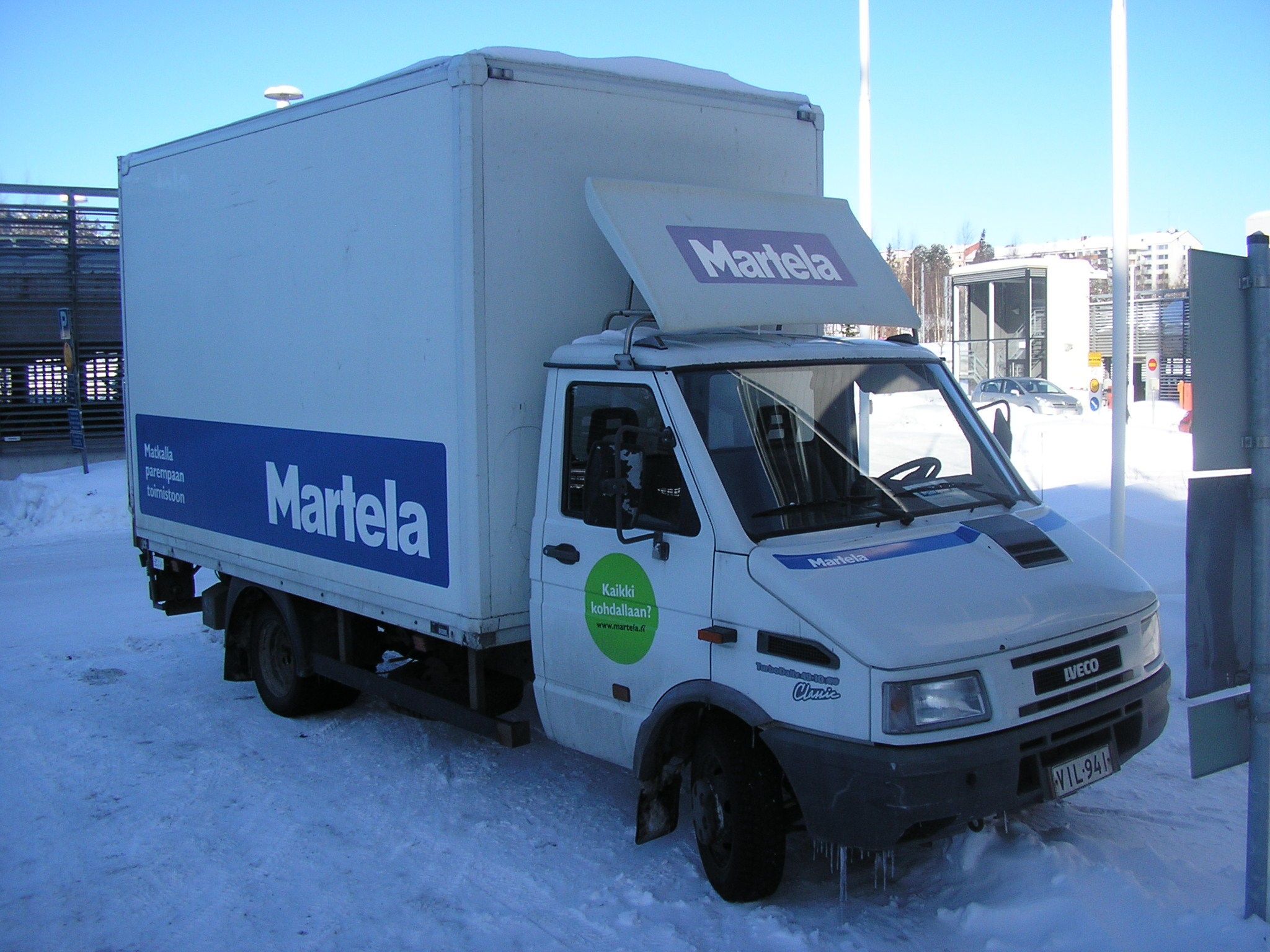 Iveco Daily 49-10 Classic truck of Martela in Jyväskylä, Finland.